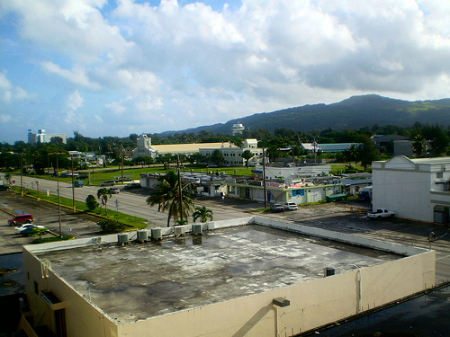 The main village of Chalan Kanoa from the Aquarius Beach Tower Hotel. At the background is the historic Mt. Carmel Church. Various grocery stores, clothing boutiques, and fast-food establishments litter the area. The islands highest peak, Mount Tapochau is at the background.